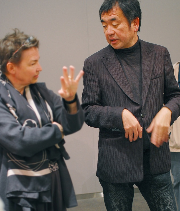 Japanese architect Kengo Kuma in 2009.